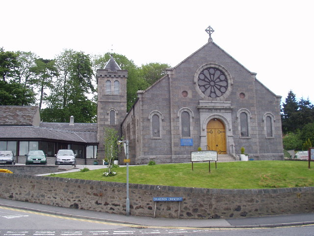 Peterculter Parish Church. Church Of Scotland 800 years old